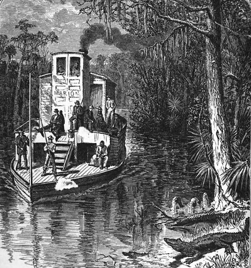 Caption:"On the Ocklawaha River, Florida." 1873. "The richly variegated colors of the far-extending thickets were mirrored so completely in the water, that we seemed suspended or floating over an enchanted forest. The clumps of saplings garnished with vines; the stately bosquets of palms, now growing a score together on a little hillock, and now standing apart, like sentinels; the occasional magnolias; the long swamp-ways out of which barges, rowed by negroes, would come to receive the mail, and into which they vanished again, the oarsmen hardly exchanging a word with our captain; the fierce-faced, bearded men, armed with rifles and revolvers, who sometimes hailed us from a point of land, to know if we "wanted any meat," and showed us deer and turkeys, and perhaps the skin of a gray wolf or a black bear,--all these novelties of the tropics and the backwoods kept us in perplexed wonder. When evening came slowly on again, a round moon silvered the water, and enabled us to see even the ducks that floated half submerged, and curiously eyed our little boat. By day, one sees hundreds of turtles, as on the St. John's, sunning themselves. The birds are legion. They chatter in the tree-tops; they offer themselves freely as marks for revolver-bullets; they scold at night as the torchlight awakes them; and they accompany the echo of each unsuccessful shot with loud derisive singing."